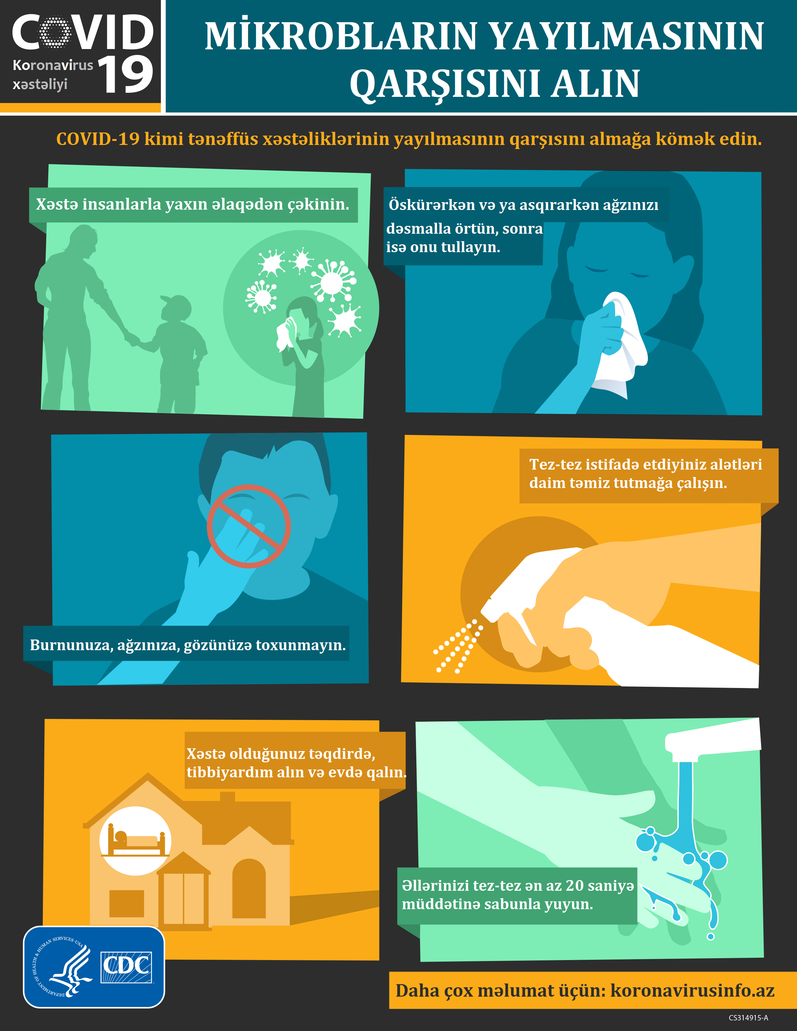 Stop the Spread of Germs (COVID-19) - Infographic describing how to stop the spread of germs.